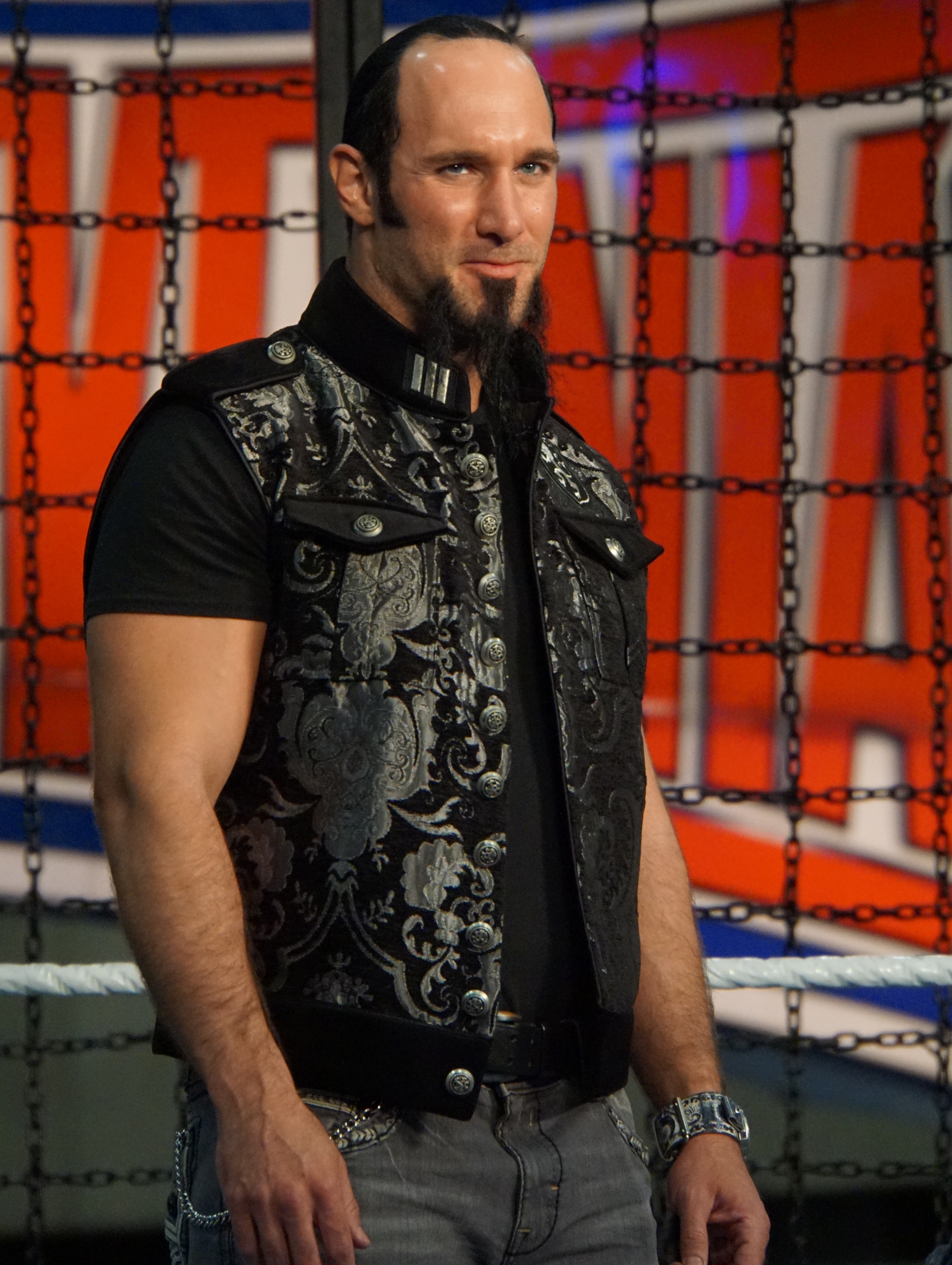 WrestleMania Axxess takes over the Kay Bailey Hutchison Convention Center in Dallas March 31-April 3. Featuring Superstar and Diva meet-and-greets, memorabilia displays and much more, WrestleMania Axxess is one event WWE fans of all ages will want to be part of. Don't miss out!